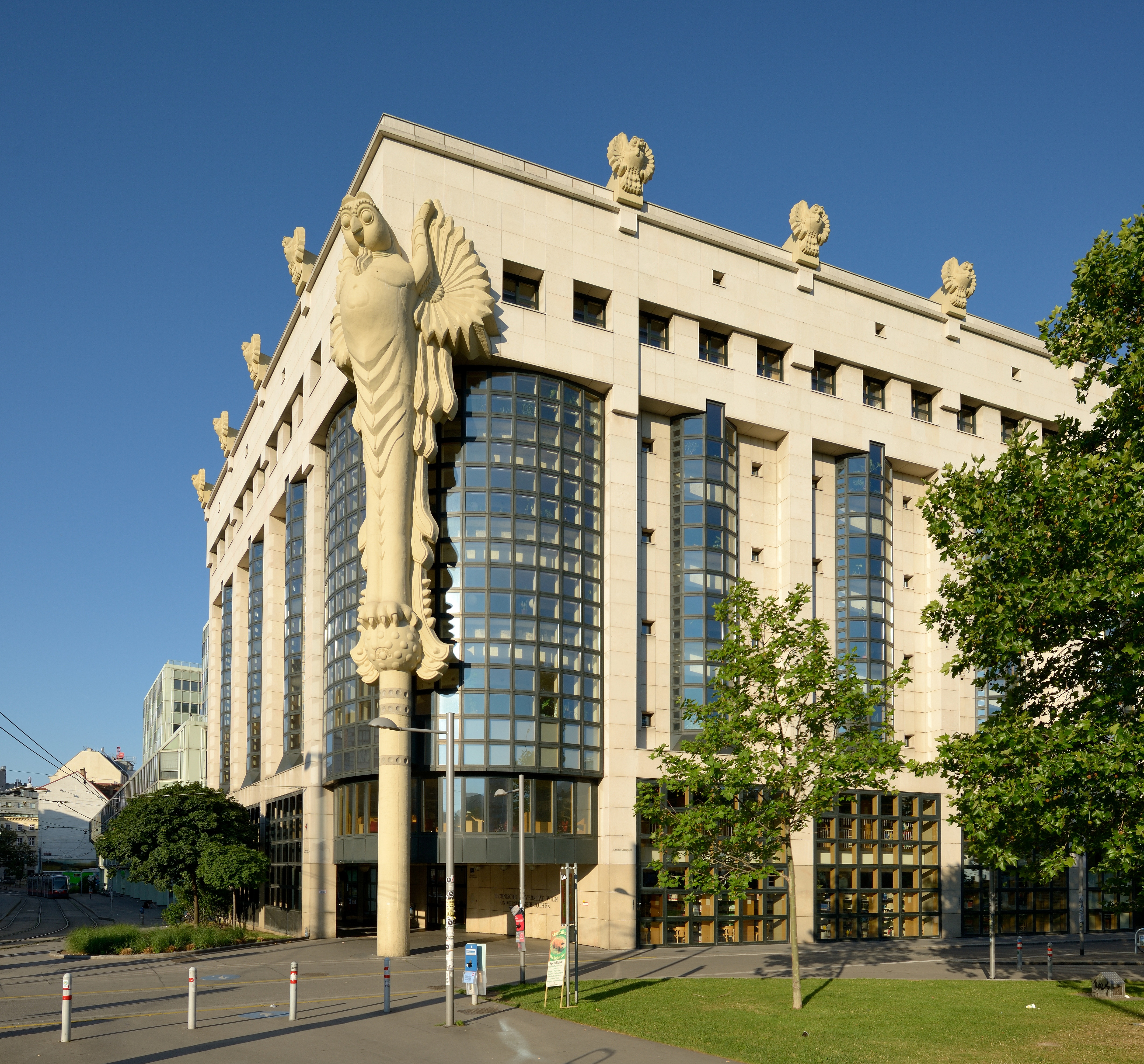 Library building of the Vienna University of Technology